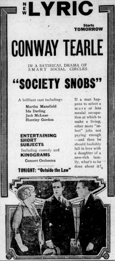 Newspaper advertisement for the American film Society Snobs (1921) with Ida Darling and Conway Tearle, on page 16 of the May 13, 1921 Duluth Herald.